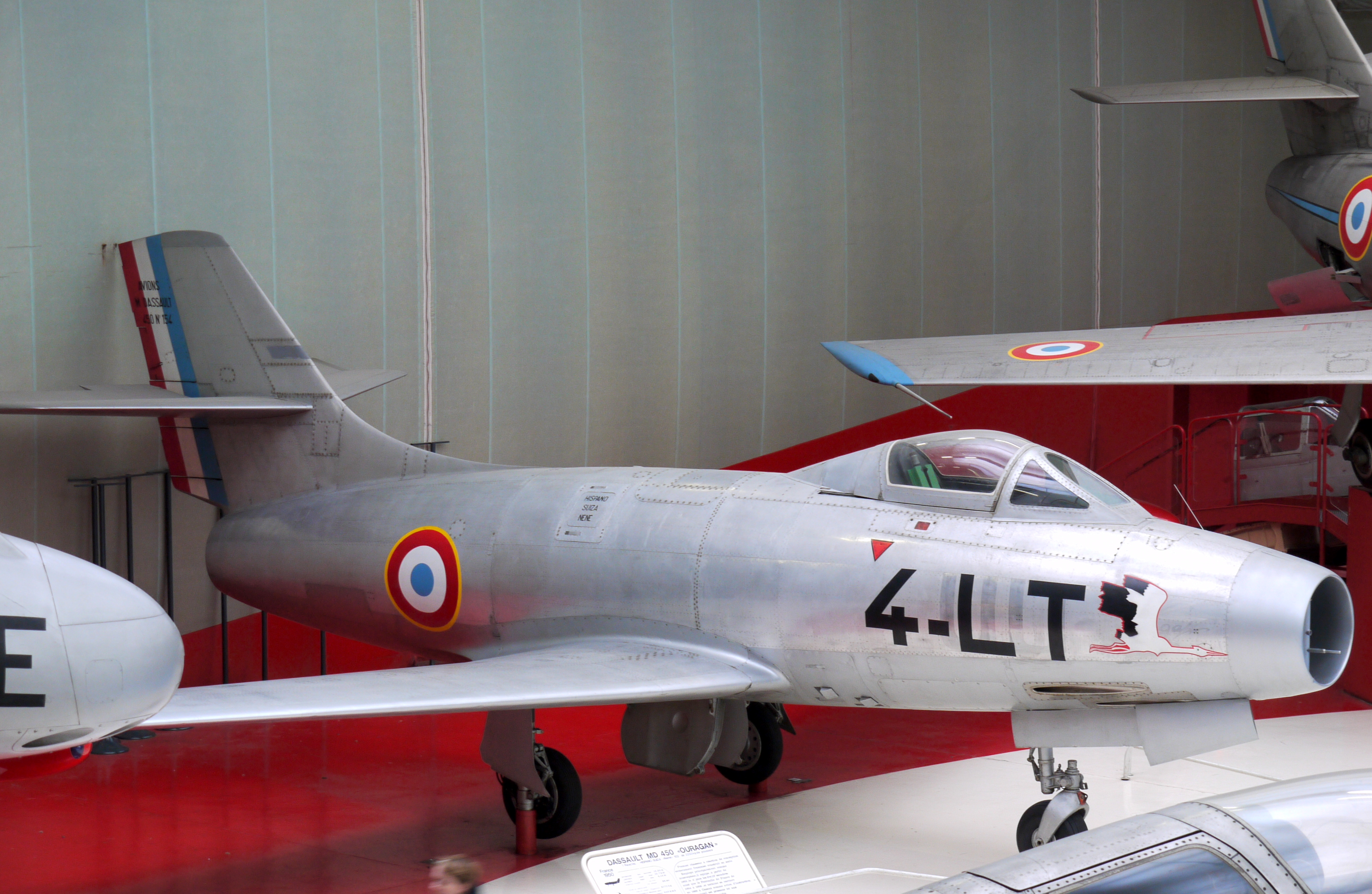 Fighter-bomber aircraft Ouragan (1949), Museum of Air and Space Paris, Le Bourget (France)